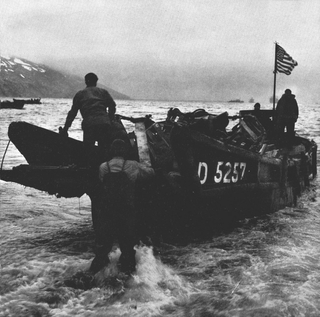 U.S. troops using a captured Japanese Daihatsu class landing craft at Attu island, in 1943.